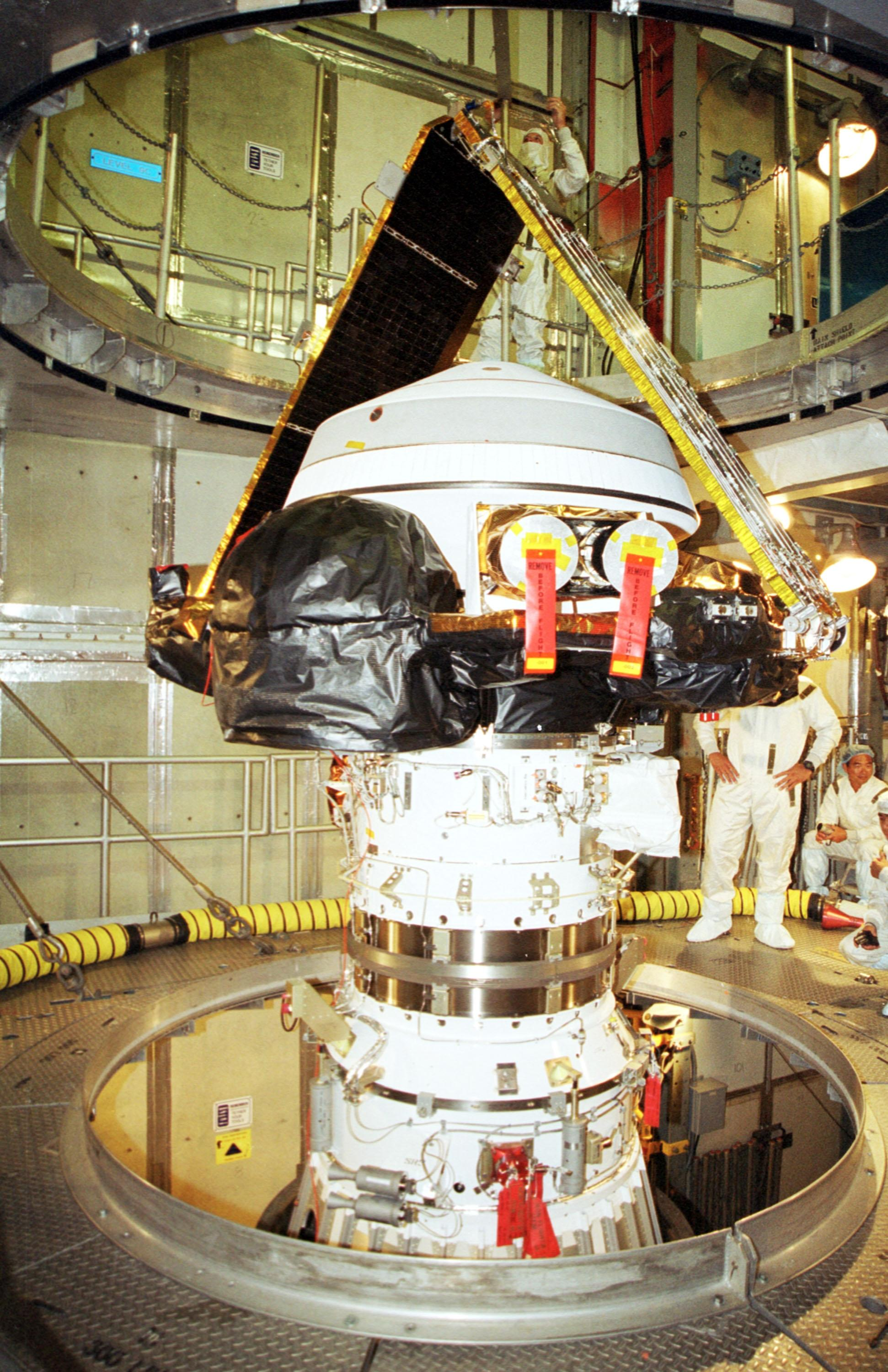 After its canister has been removed, the Genesis spacecraft sits in place atop the Boeing Delta II rocket in the tower at Launch Complex 17-A, Cape Canaveral Air Force Station. Genesis will be on a robotic NASA space mission to catch a wisp of the raw material of the Sun and return it to Earth with a spectacular mid-air helicopter capture. The sample return capsule is 4.9 feet (1.5 meters) in diameter and 52 inches (1.31 meters) tall. The mission’s goal is to collect and return to Earth just 10 to 20 micrograms -- or the weight of a few grains of salt -- of solar wind, invisible charged particles that flow outward from the Sun. This treasured smidgen of the Sun will be preserved in a special laboratory for study by scientists over the next century in search of answers to fundamental questions about the exact composition of our star and the birth of our solar system. The Genesis launch is scheduled for 12:36 p.m. EDT on July 30 from CCAFS.